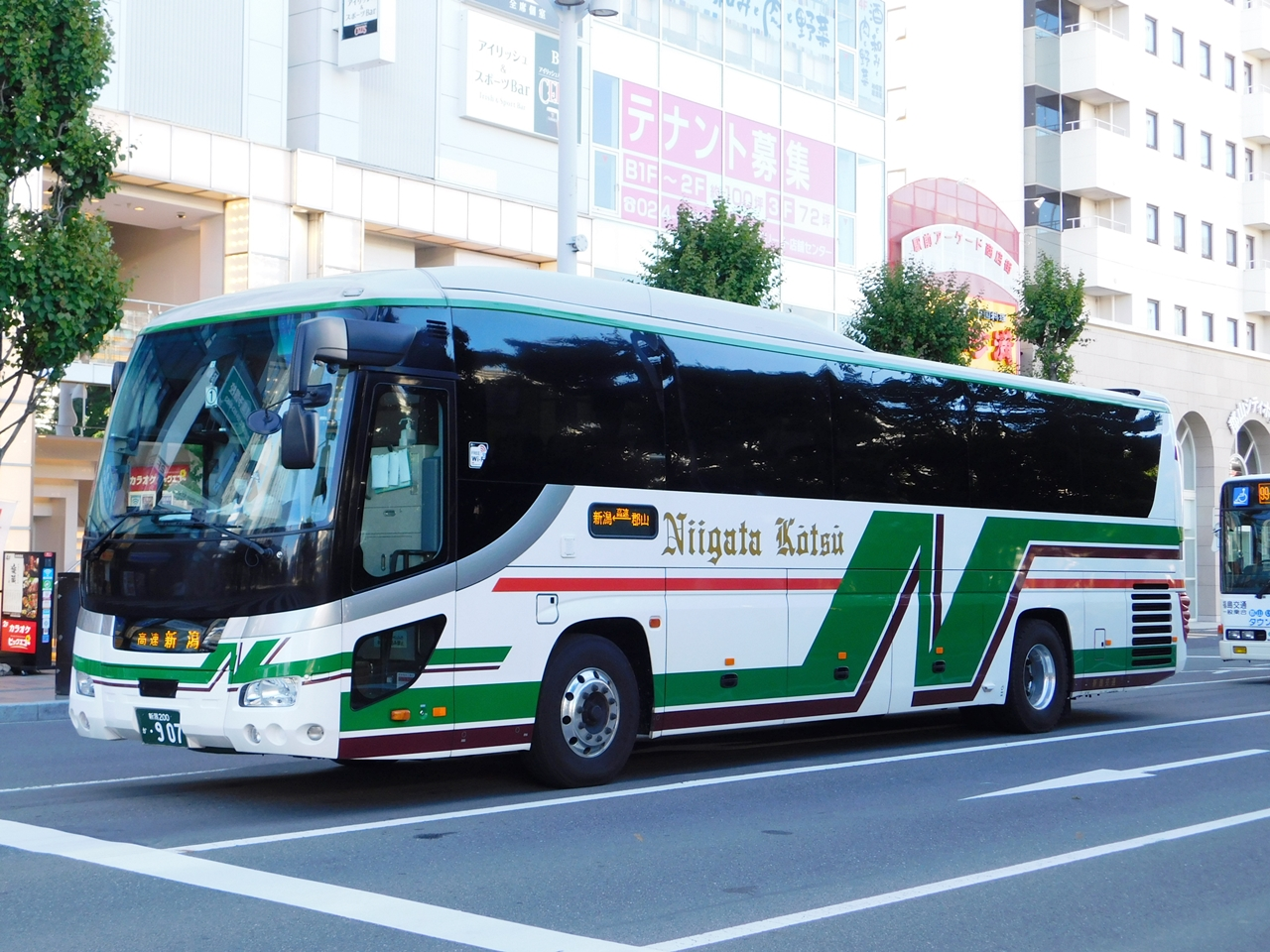 Niigata kotsu Isuzu Gala (QRG-RU1ESBJ)on highwaybus Niigata-Koriyama Nikon Coolpix B500